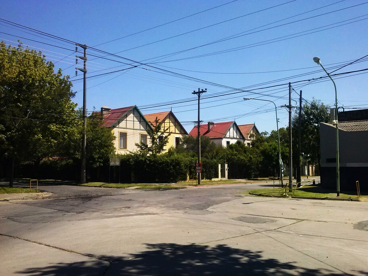 Entrance to the Barrio Inglés (English Neighbourhood) of Campana, Buenos Aires Province.